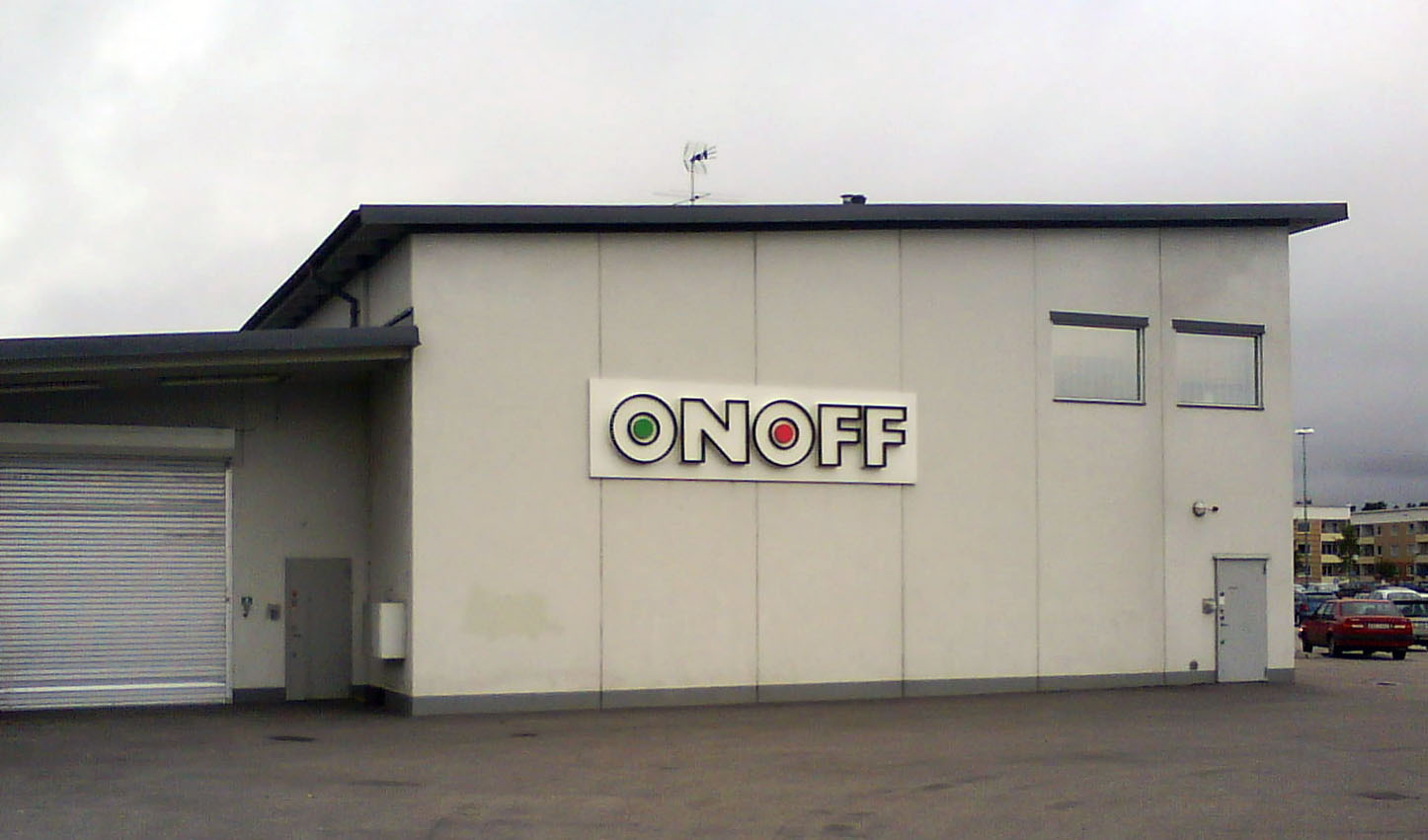 the backside of Onoff in Lidköping, Sweden